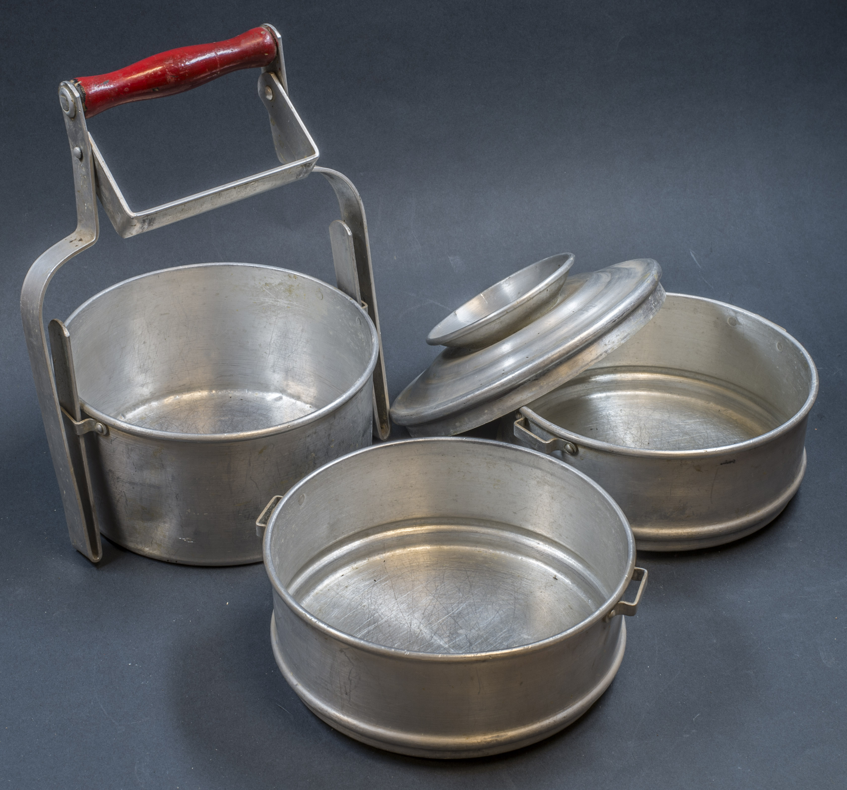 Henkelmann, Aluminium, about 1950th, disassembled